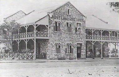 Creator unknown. Black and white photo of the Victoria Hotel in Darwin taken in the 1920s.